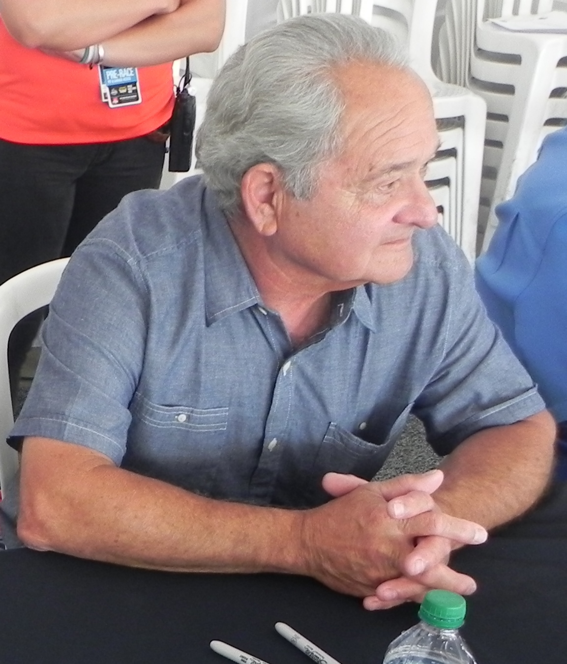 Indy500 driver Joe Saldana at the 2014 Indianapolis 500.